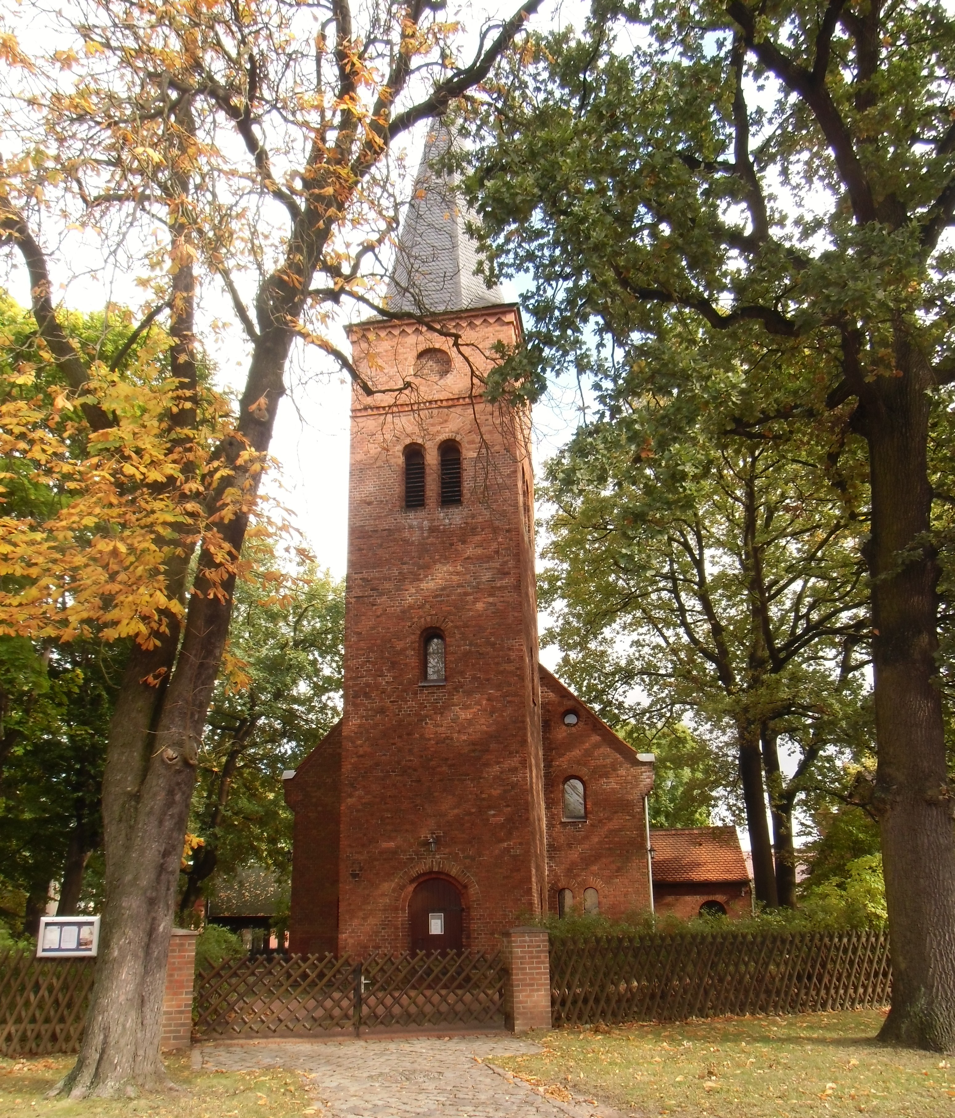 Church of Schönow, city of Bernau bei Berlin, Barnim district, Brandenburg state, Germany Object location52° 40′ 43.91″ N, 13° 32′ 02.67″ E